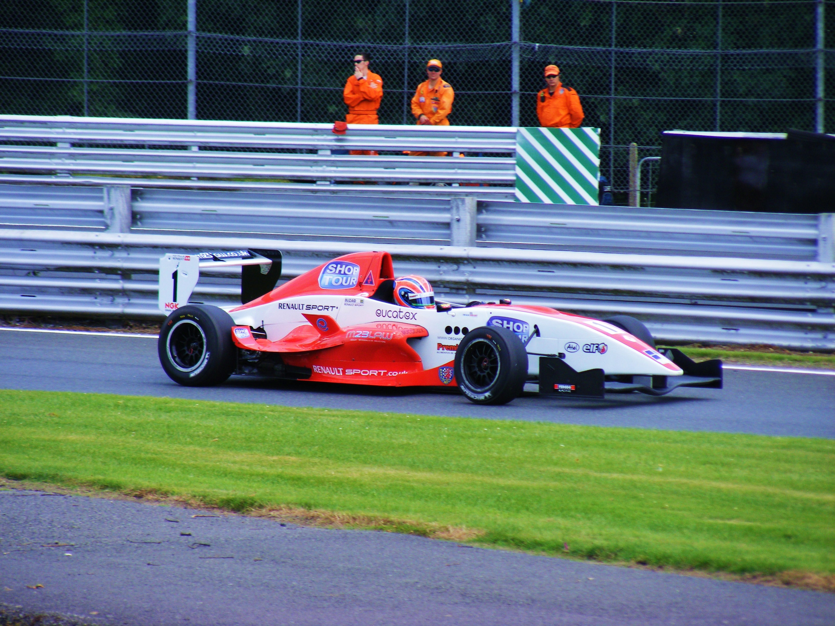 Adriano Buzaid exits the pit lane at Oulton Park to begin his qualifying session.